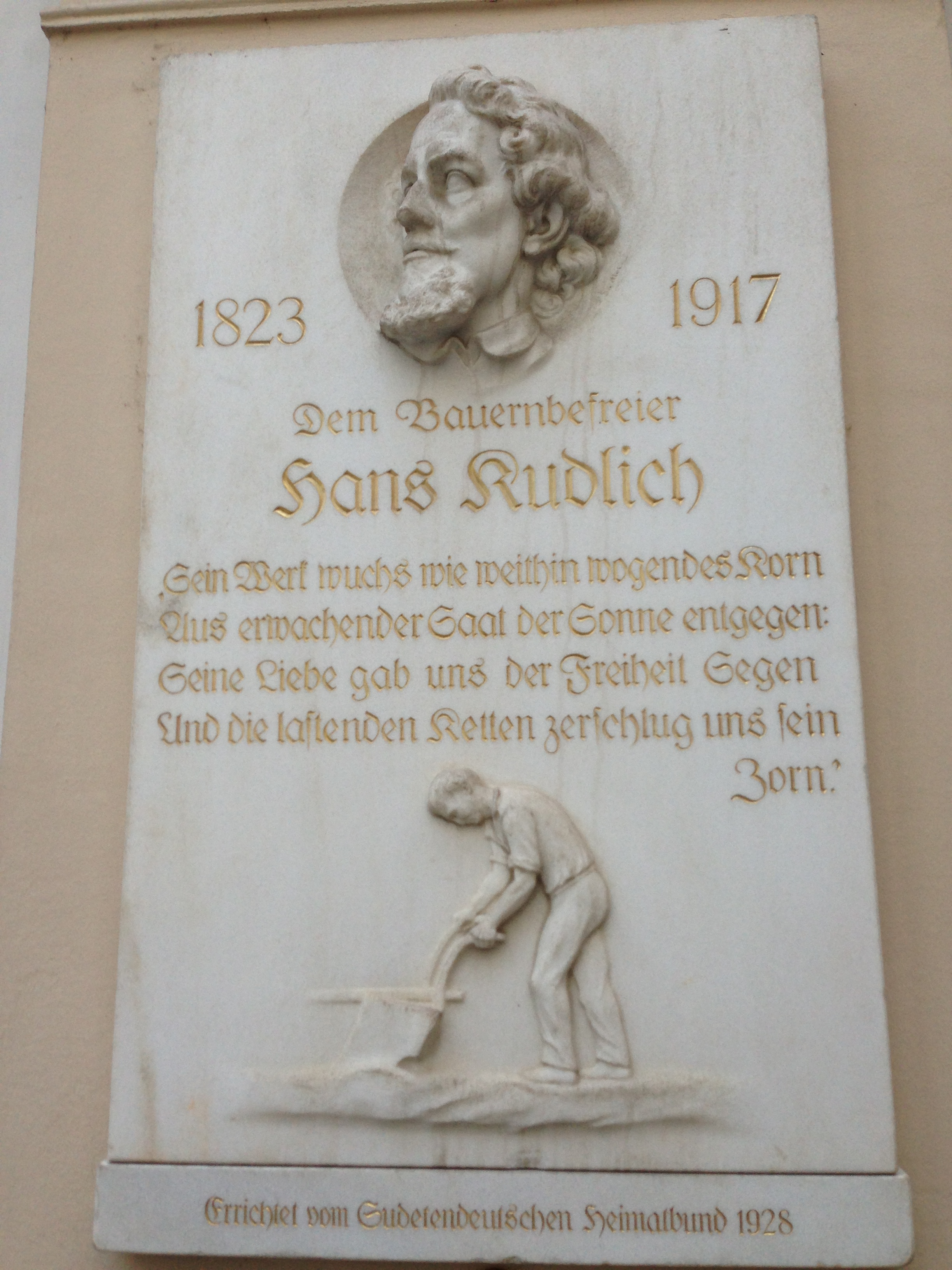 Plate dedicated to Hans Kudlich, court of the Palais Niederösterreich, Vienna